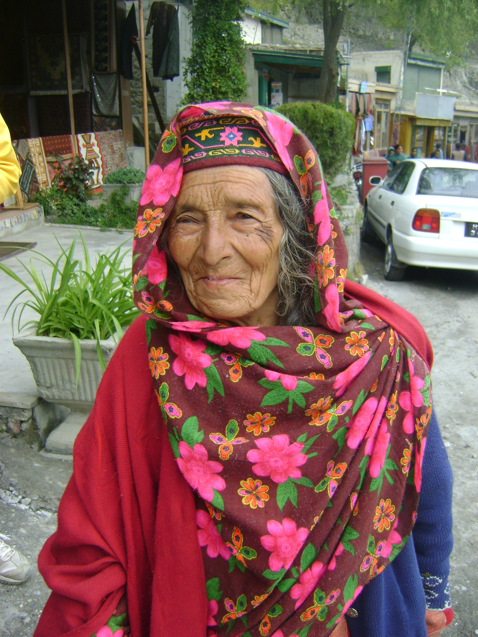 Old woman in Karimabad, Hunza Valley, Gilgit-Baltistan, Pakistan Faces of Pakistan Karimabad, pretty in pink Camera: Sony DSC-S730 License on Flickr (2011-04-01): CC-BY-2.0 Flickr tags: Portrait, Hunza, Karimabad, Pakistan, earthasia, TopShots, my_gear_and_me_premium